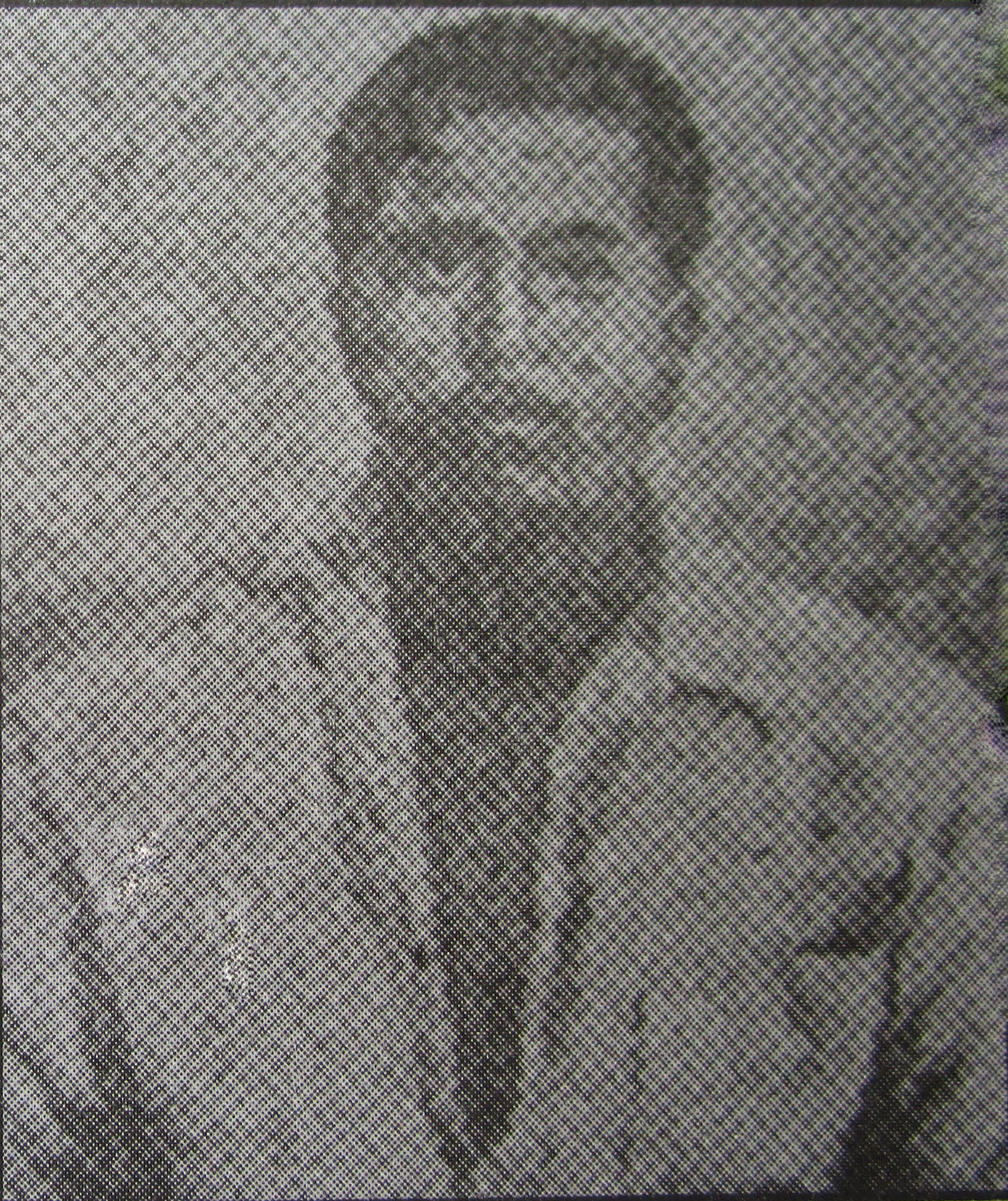 Vabaniprasad Vattacharya